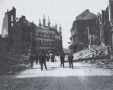 World War I destruction in Leuven, Belgium